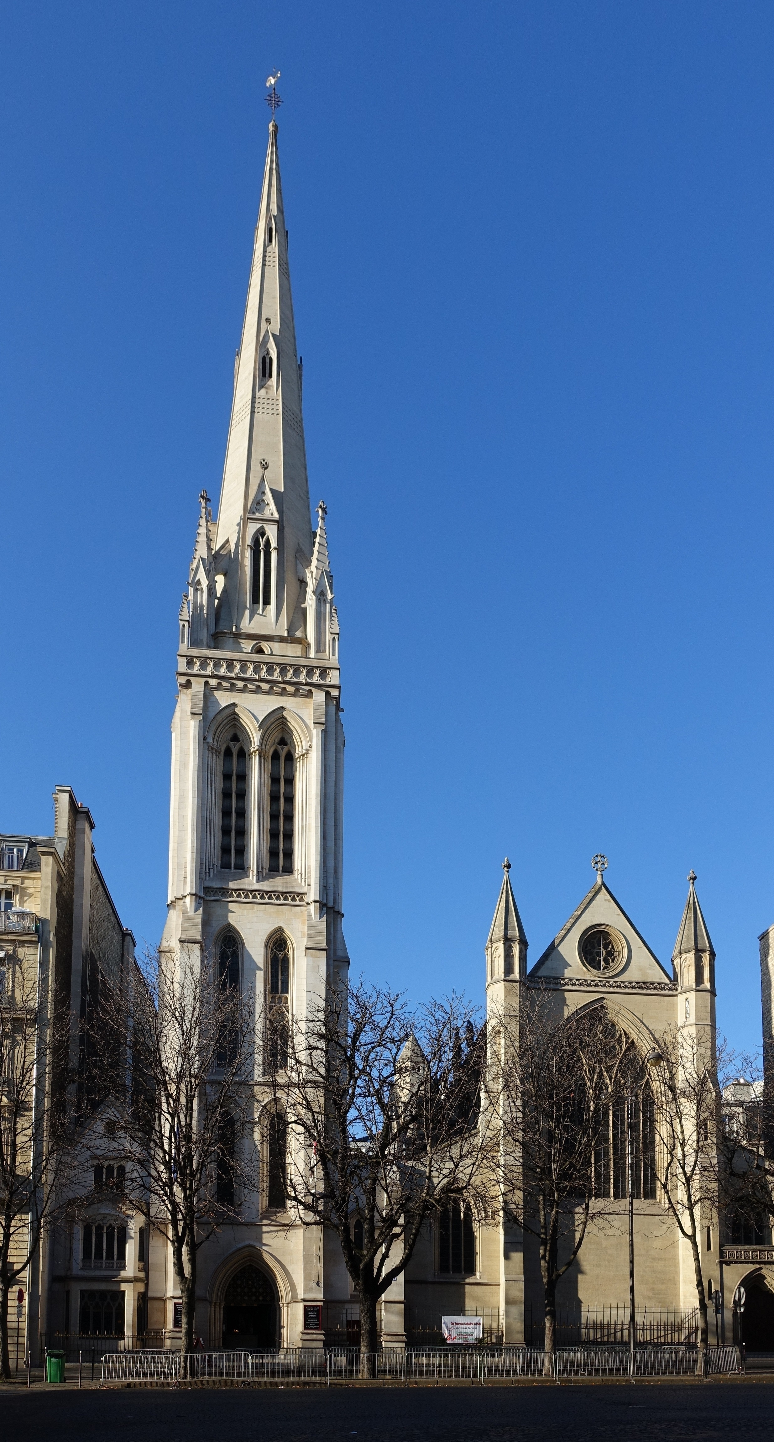 Holy Trinity American Episcopal Cathedral, Paris